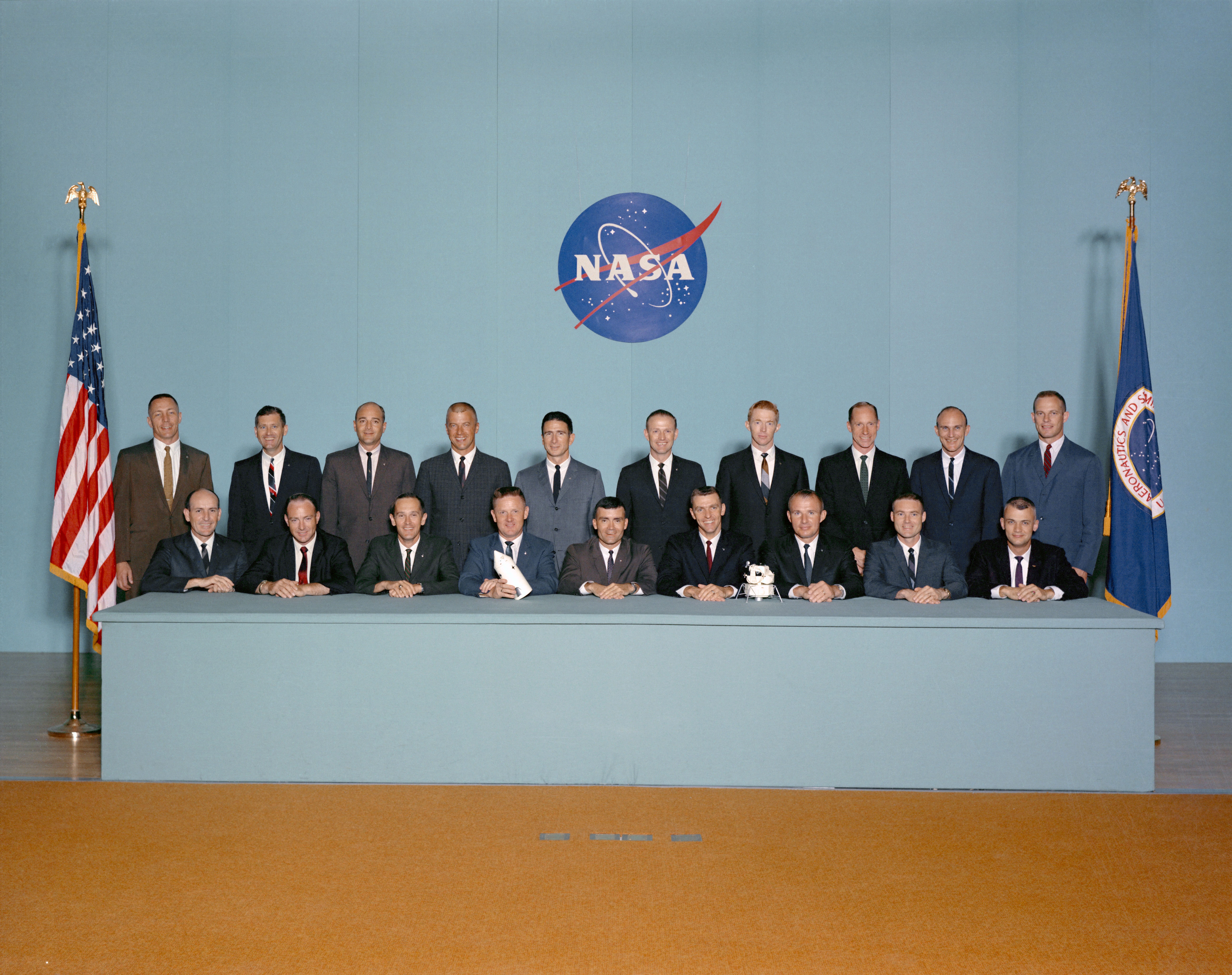 The fifth group of NASA astronauts, also known as the "Original 19". Back row, from left to right: John L. Swigert Jr., William R. Pogue, Ronald E. Evans Jr., Paul J. Weitz, James B. Irwin, Gerald P. Carr, Stuart A. Roosa, Alfred M. Worden, T. Kenneth Mattingly II and Jack R. Lousma. Front row, from left to right: Edward G. Givens Jr., Edgar D. Mitchell, Charles M. Duke Jr., Don L. Lind, Fred W. Haise Jr., Joseph H. Engle, Vance D. Brand, John S. Bull and Bruce McCandless II.